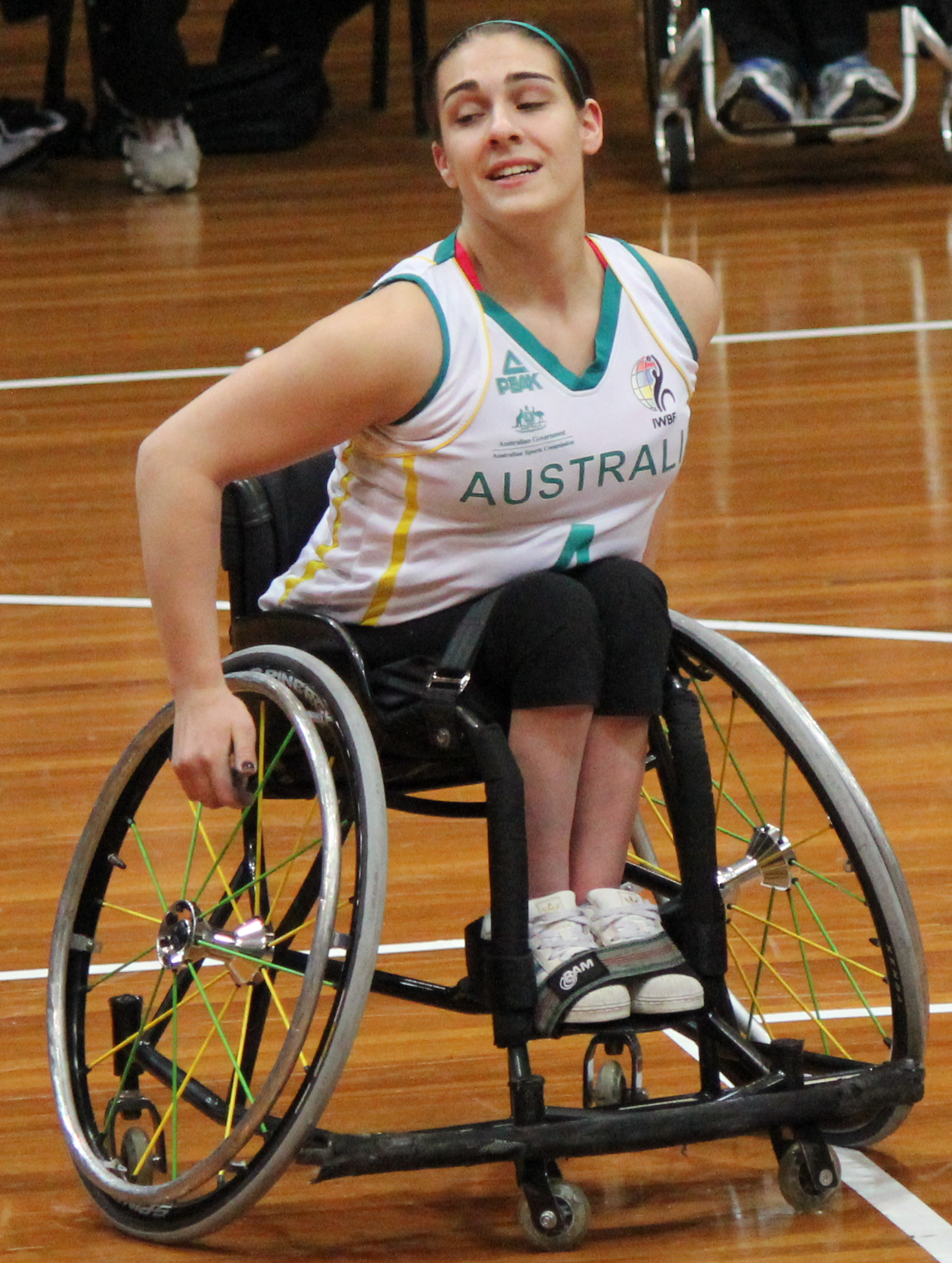 Sarah Vinci at the 2012 Gliders and Rollers World Challenge in Sydney.